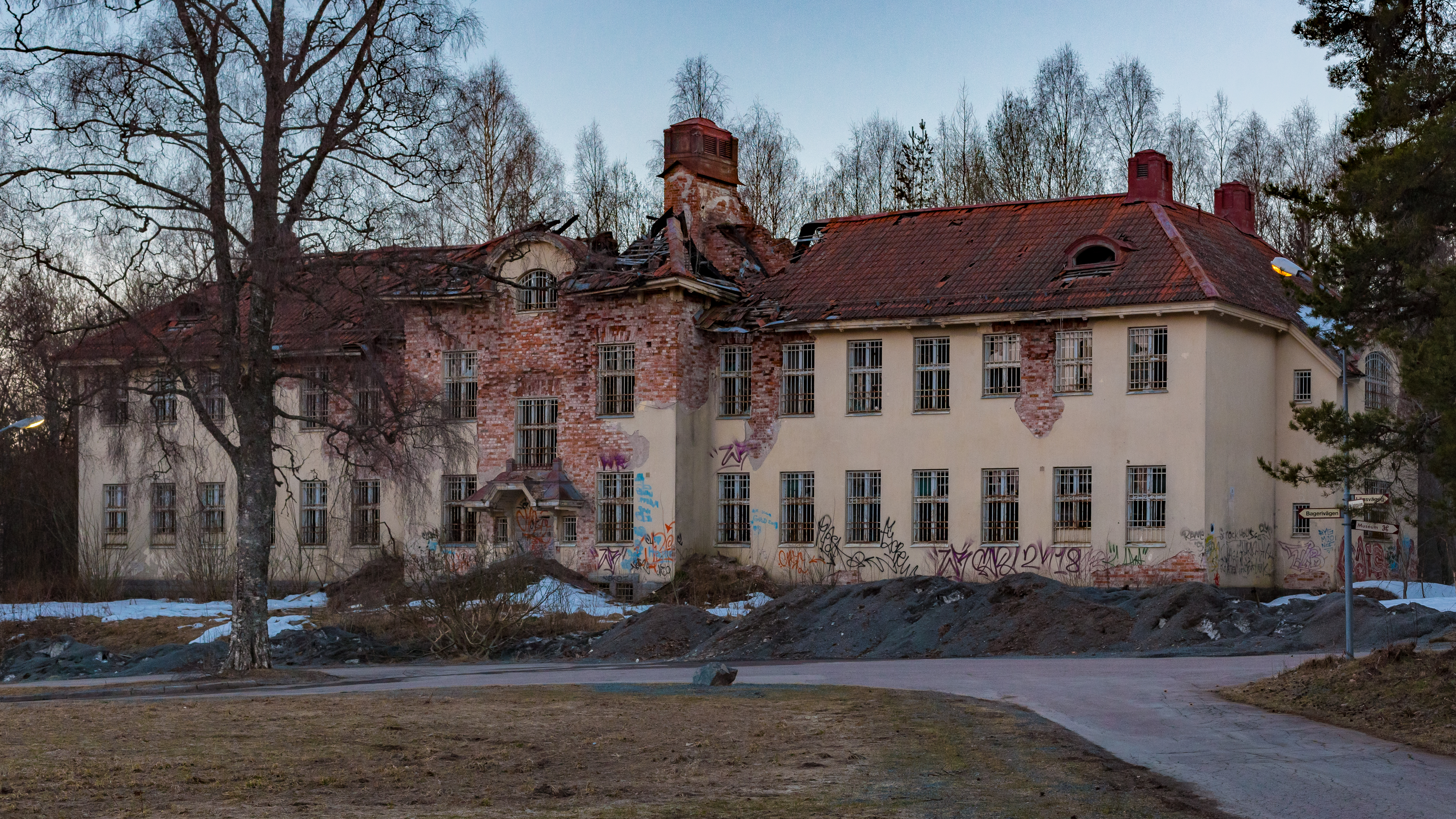 The ward for mentally ill criminals at Säter psychiatric hospital, Säter, Dalarna County, Sweden.